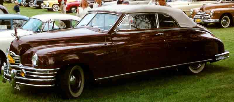 1949 Packard Super Eight Convertible Victoria Model 2232 (built 1948-1949)